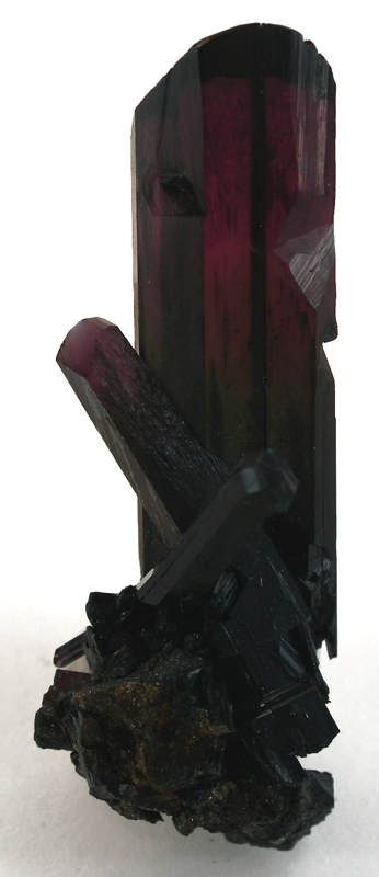 Vivianite Locality: Blackbird Mine, Blackbird District, Lemhi County, Idaho, USA (Locality at ) Size: miniature, 5.0 x 2.3 x 1.8 cm Vivianite An old US classic now, these were found in the 1960s and remain the finest vivianites ever from the USA. They have a unique purple color - I have no idea what causes it, but NO other vivianites from any other locale seem to have it, so these are unmistakeable when they do turn up. This specimen has a particularly well-formed, robust crystal that is much thicker at 5-6mm than most such specimens (they tend to be 2-3mm). The dominant crystal displays dramatically, and as youc an see backlights pretty impressively too, to show off that novel color. Fine old pieces like this, particuarly as superb miniatures, are NOT easily obtained and are only available as the major old collections are recycled. ex. Jaime Bird Collection.